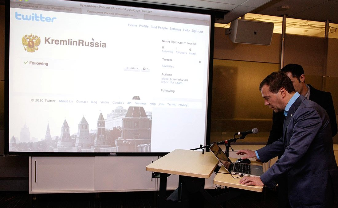 In Twitter’s offices Mr Medvedev opened an official account on the Twitter social network.